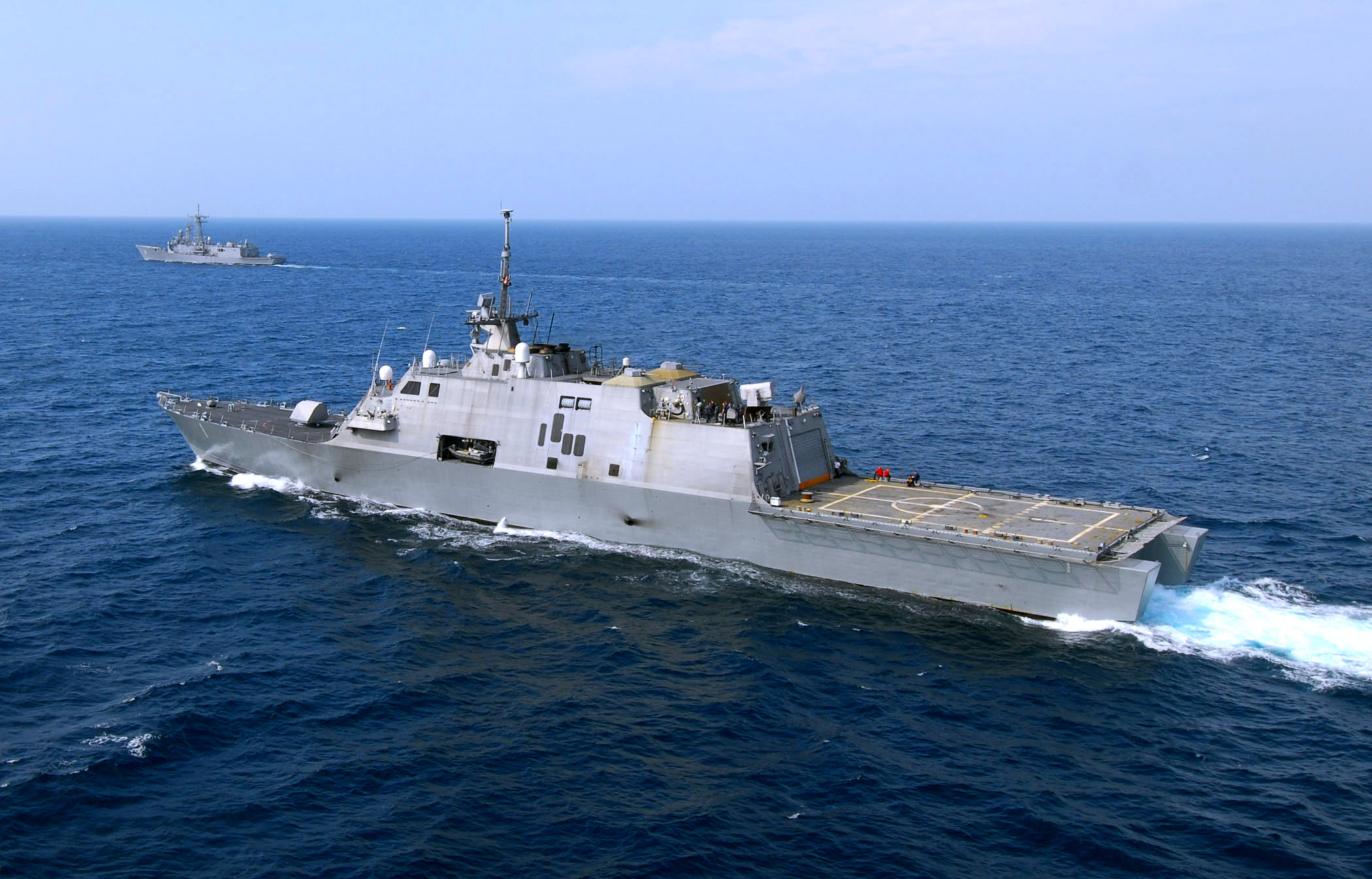 PACIFIC OCEAN (March 30, 2010) The littoral combat ship USS Freedom (LCS 1) maneuvers off the port quarter of the guided-missile frigate USS McInerney (FFG 8) during joint counter-illicit trafficking operations in the U.S. 4th Fleet area of responsibility. (U.S. Navy photo by Lt. Ed Early/Released)